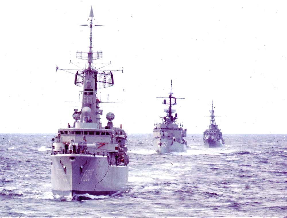 Three NATO frigates entering Lisbon, Portugal, in February 1975: Hr.Ms. Van Nes (F805), USS Edward McDonnell (FF-1043), and Lübeck (F 224).